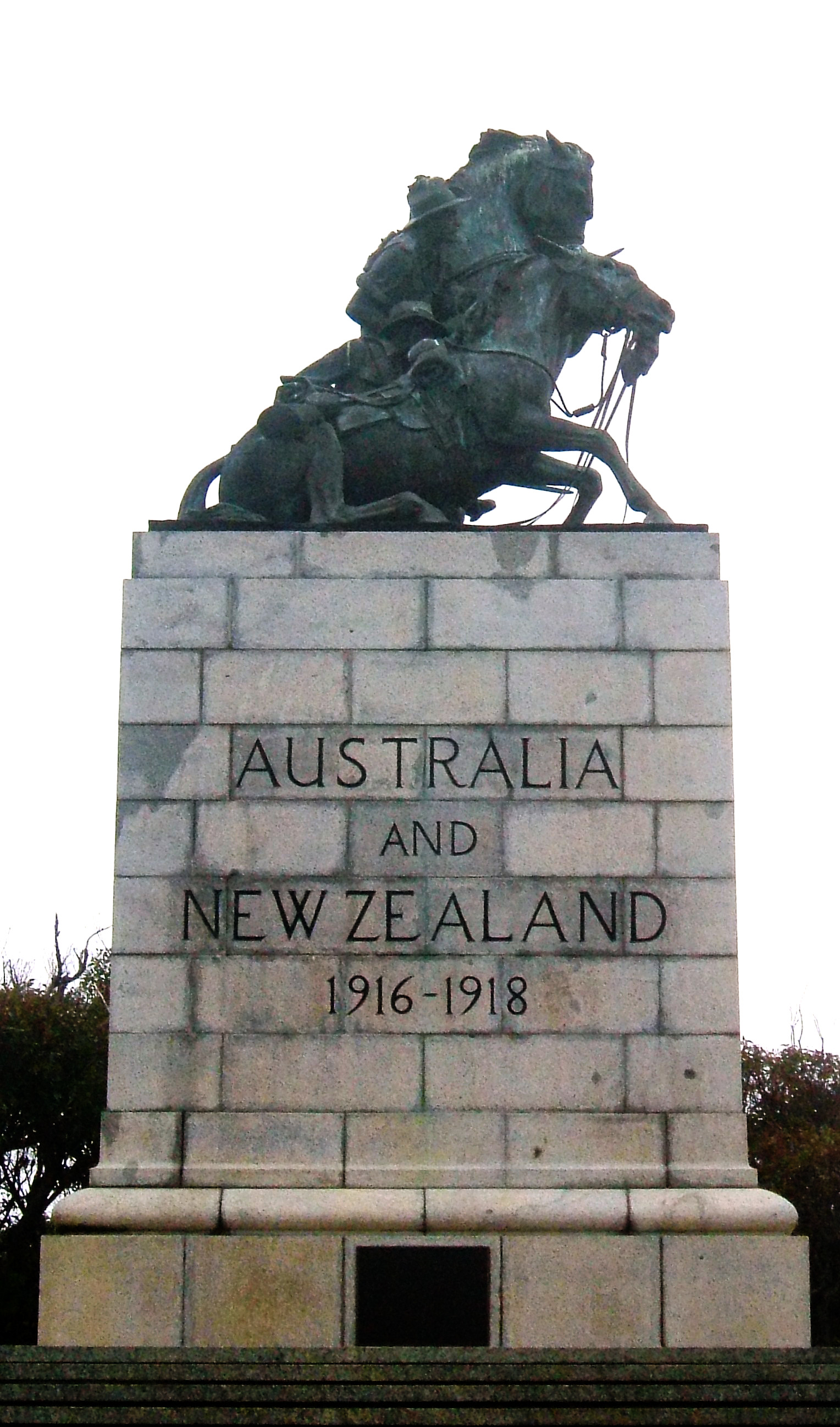 The Desert Mounted Corps Memorial at Mt Clarence, Albany, Western Australia. The memorial originally stood in Port Said, Egypt, until it was damaged in anti-British riots, during the Suez Crisis of 1956. Albany is also linked with the corps by the fact that the Anzac mounted units left Australia from there in November 1914.